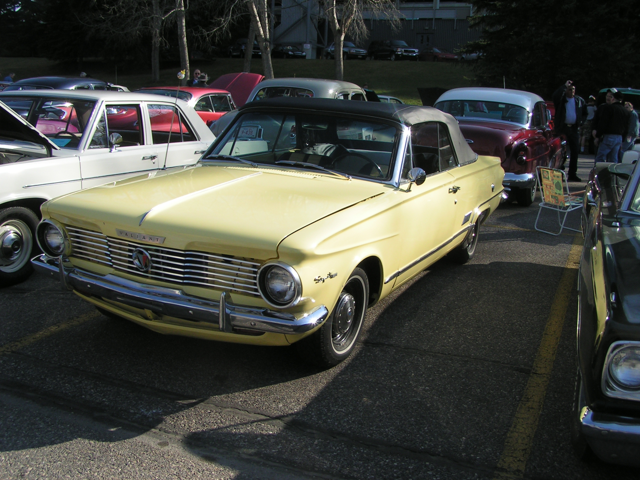 Plymouth Valiant Convertible